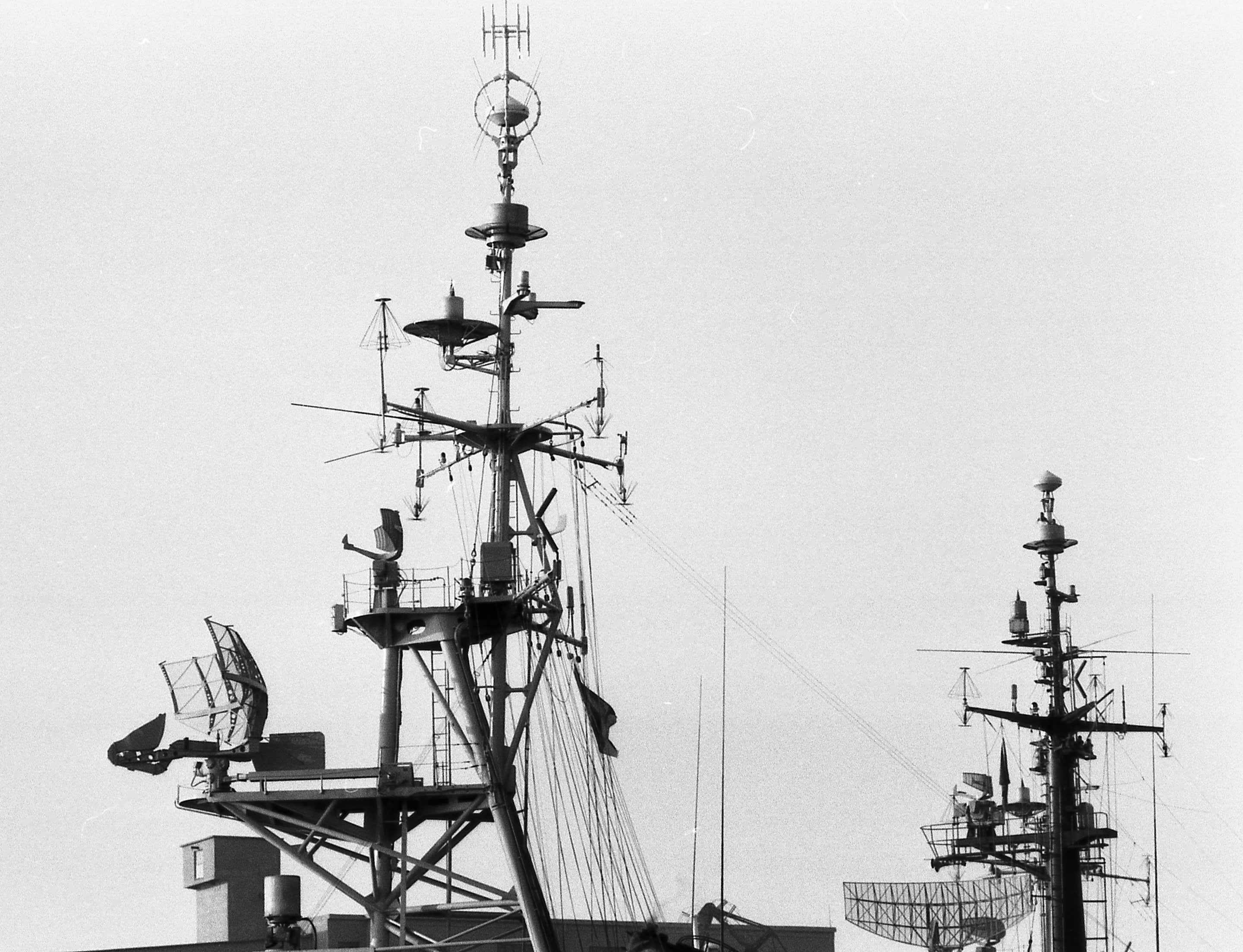 Italy, Marina Militare. The frigate Carabiniere (F 581), Alpino class, built by Shipyards of the Tyrrenian at Riva Trigoso, launched on September 30, 1967, completed and entered in service on April 28, 1968. The frigate was scrapped on November 19, 2008. Here is anchored in the Port of Livorno at “Andana degli Anelli” of “Porto Mediceo” on March 12, 1974.